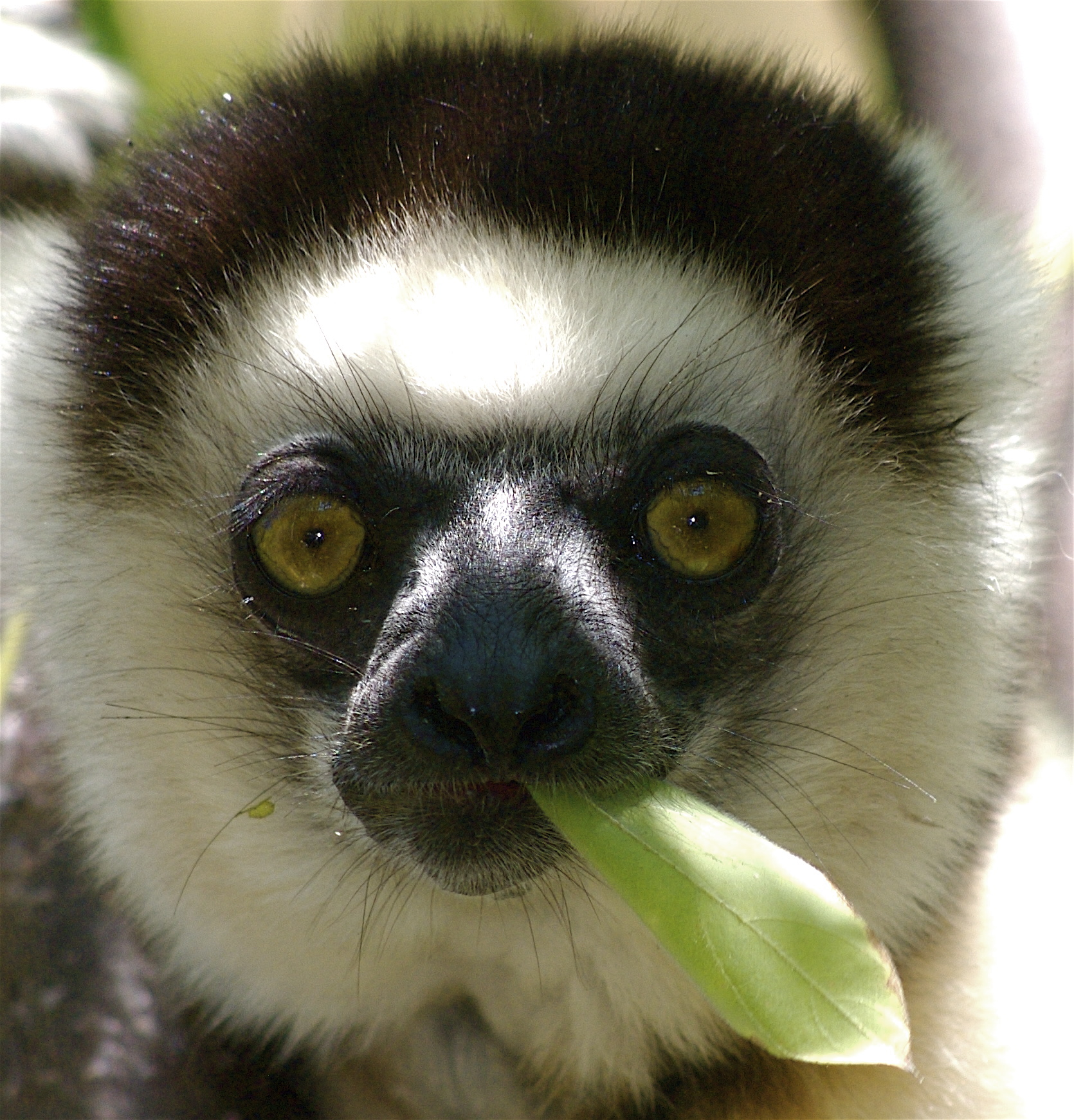 Verreaux's Sifaka (Propithecus verreauxi) close up